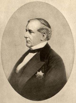 Bernhard Ernst von Bülow (2 August 1815 – 20 October 1879), Foreign Secretary of the German Empire. Note: do not confuse with his son Bernhard Heinrich Martin Karl von Bülow (1849 - 1929), also foreign secretary and chancellor